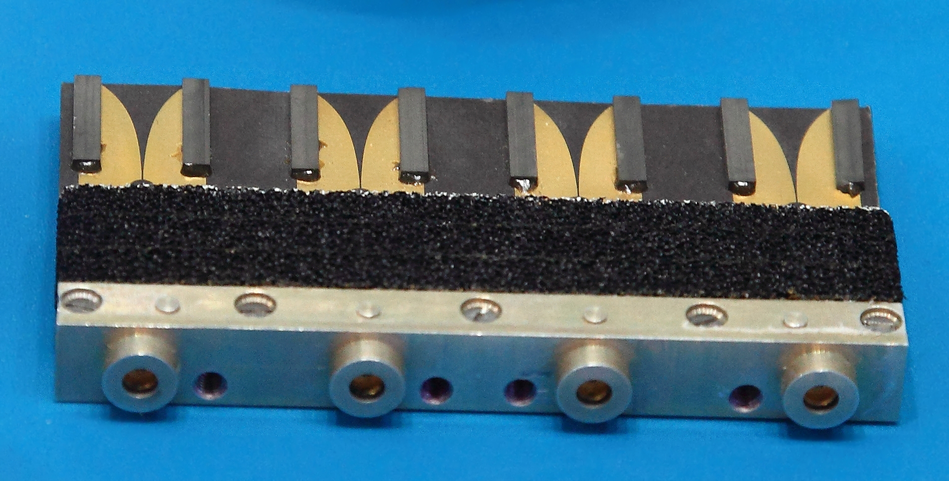 ILA Berlin Air Show 2012 ; linear Vivaldi antenna; ELT